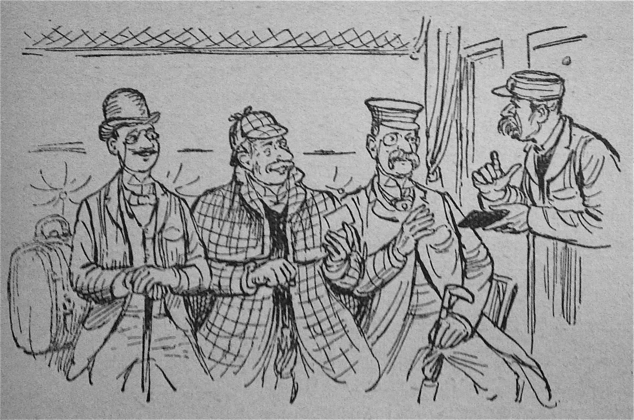 Example of the illustrative work of George Gordon Fraser, 1859-1895, from the 1891 publication 'The Diary of a Pilgrimage'